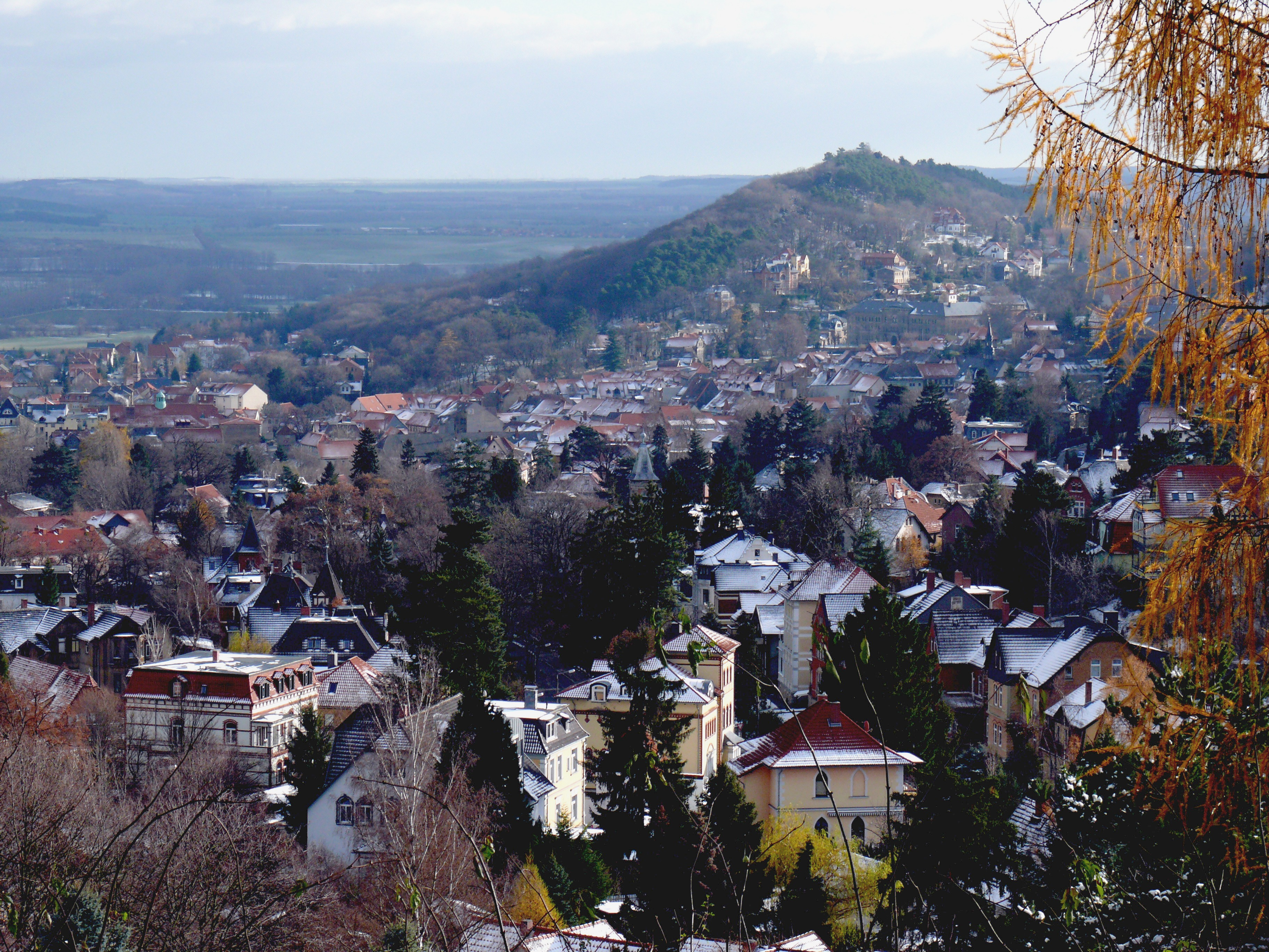 View of Blankenburg am Harz seen from the west. Harz mountains, Germany